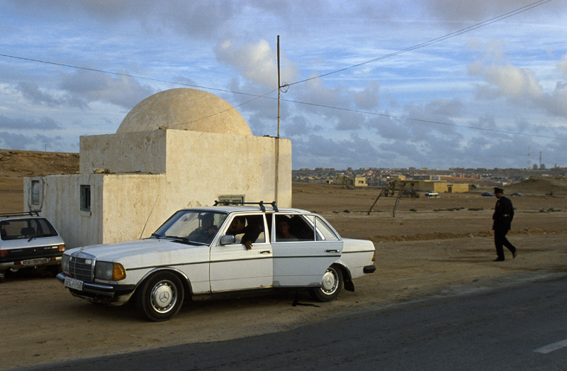 Military checkpiont at suburbs of El Aaiún—Laayoune (Western Sahara) .